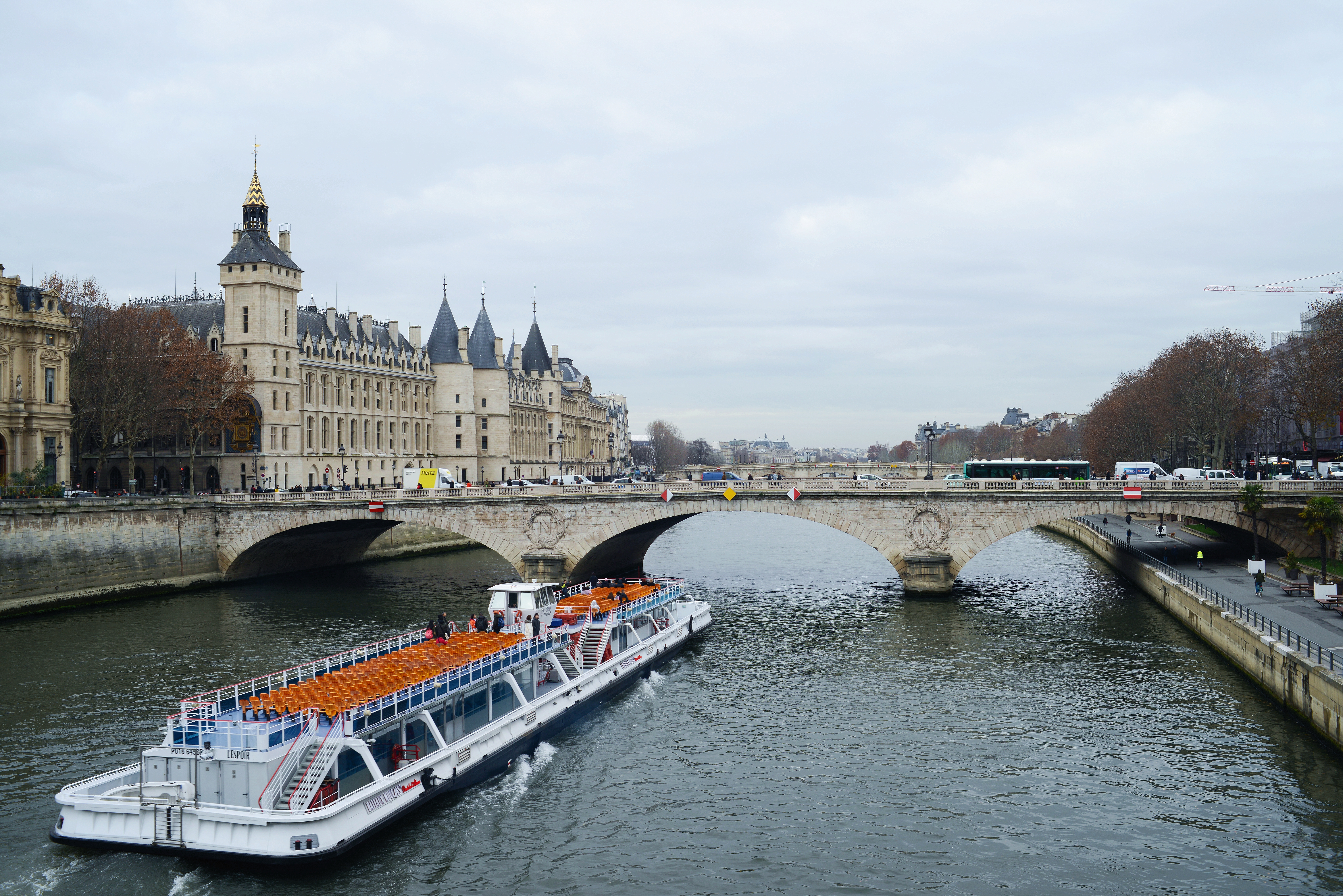 Paris, view of Pont au Change